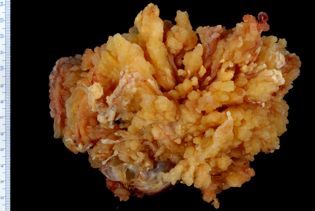 Serous LMP Tumor of Ovary 18-year-old woman with complaint of expanding abdominal girth.